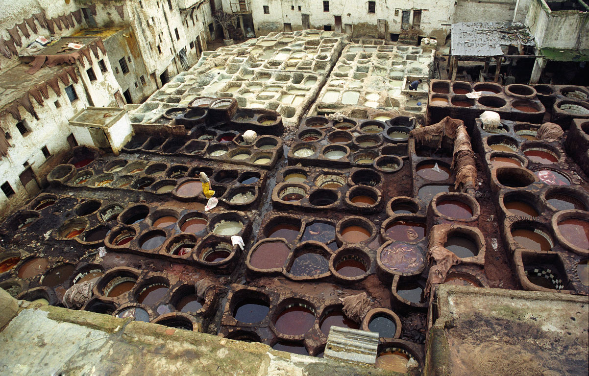 Tanneries at Fes